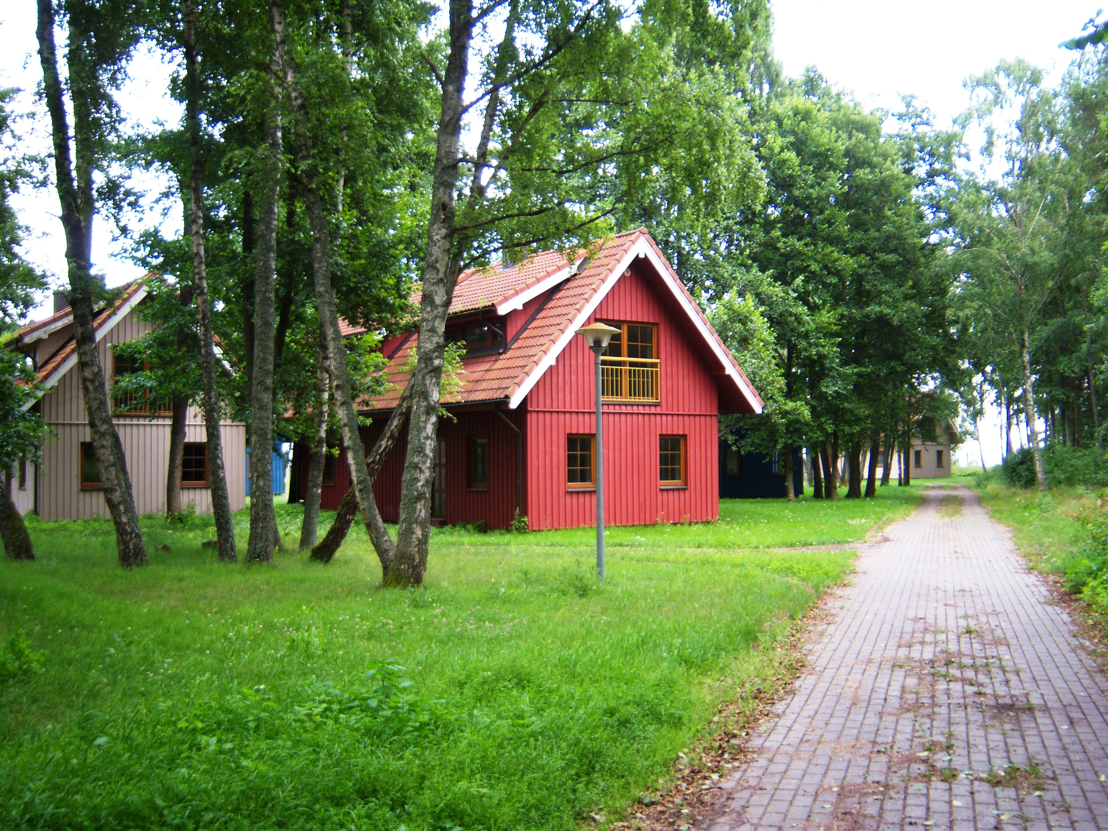 Botels in Preila, Lithuania